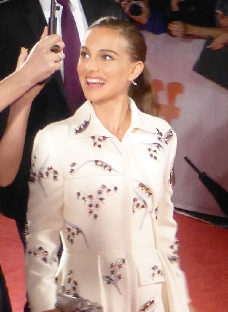 Natalie Portman at the premiere of Planetarium, 2016 Toronto Film Festival